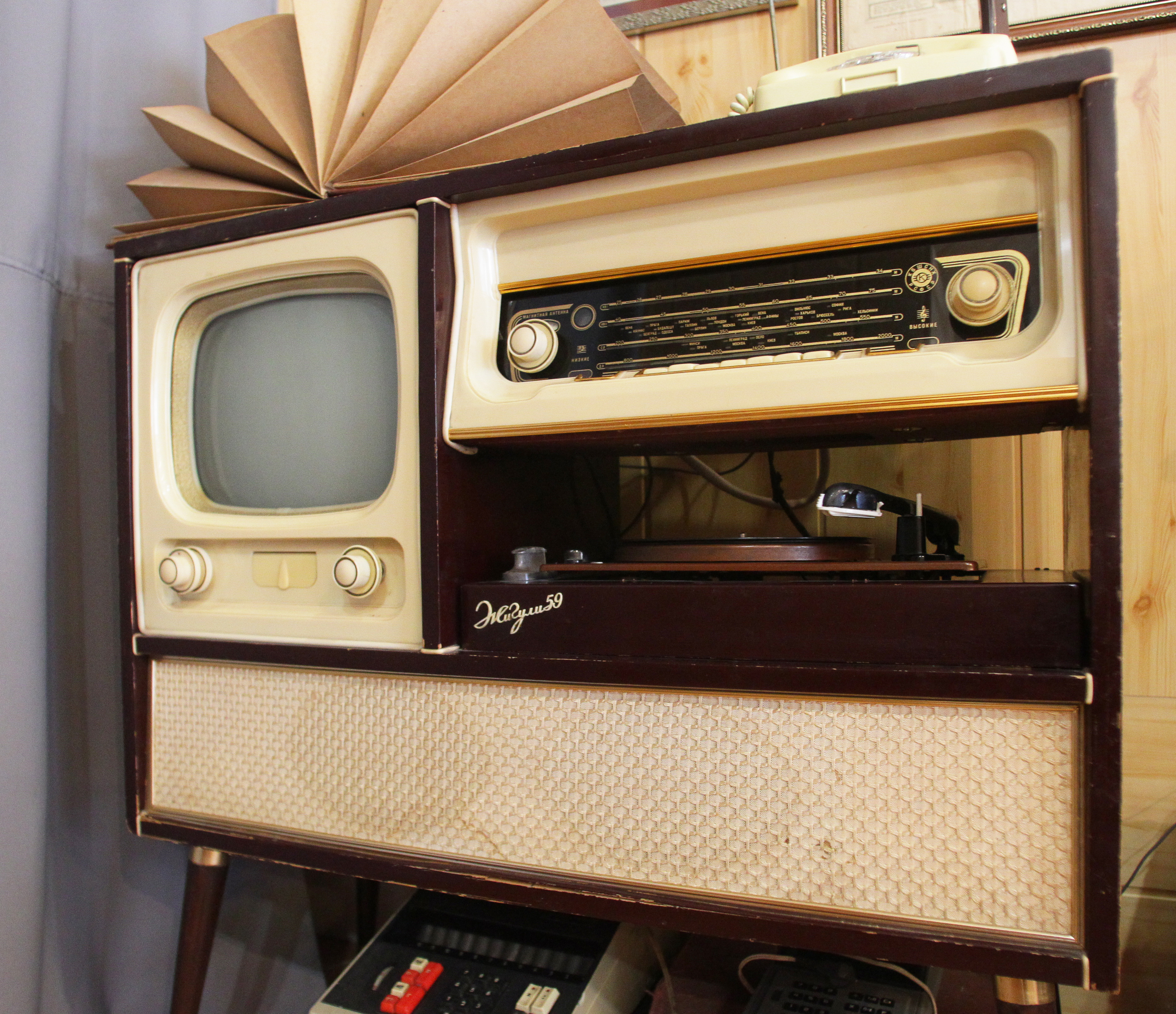 Soviet combo television unit 'Zhigouli-59' (Жигули-59).